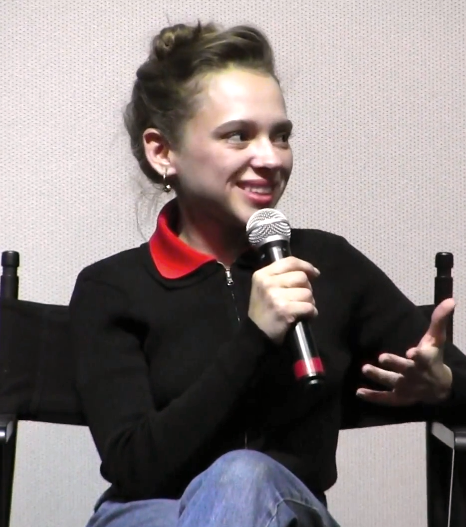 Shira Haas attending Israel Film Festival's post-screening discussion of The Conductor (2018) in Los Angeles